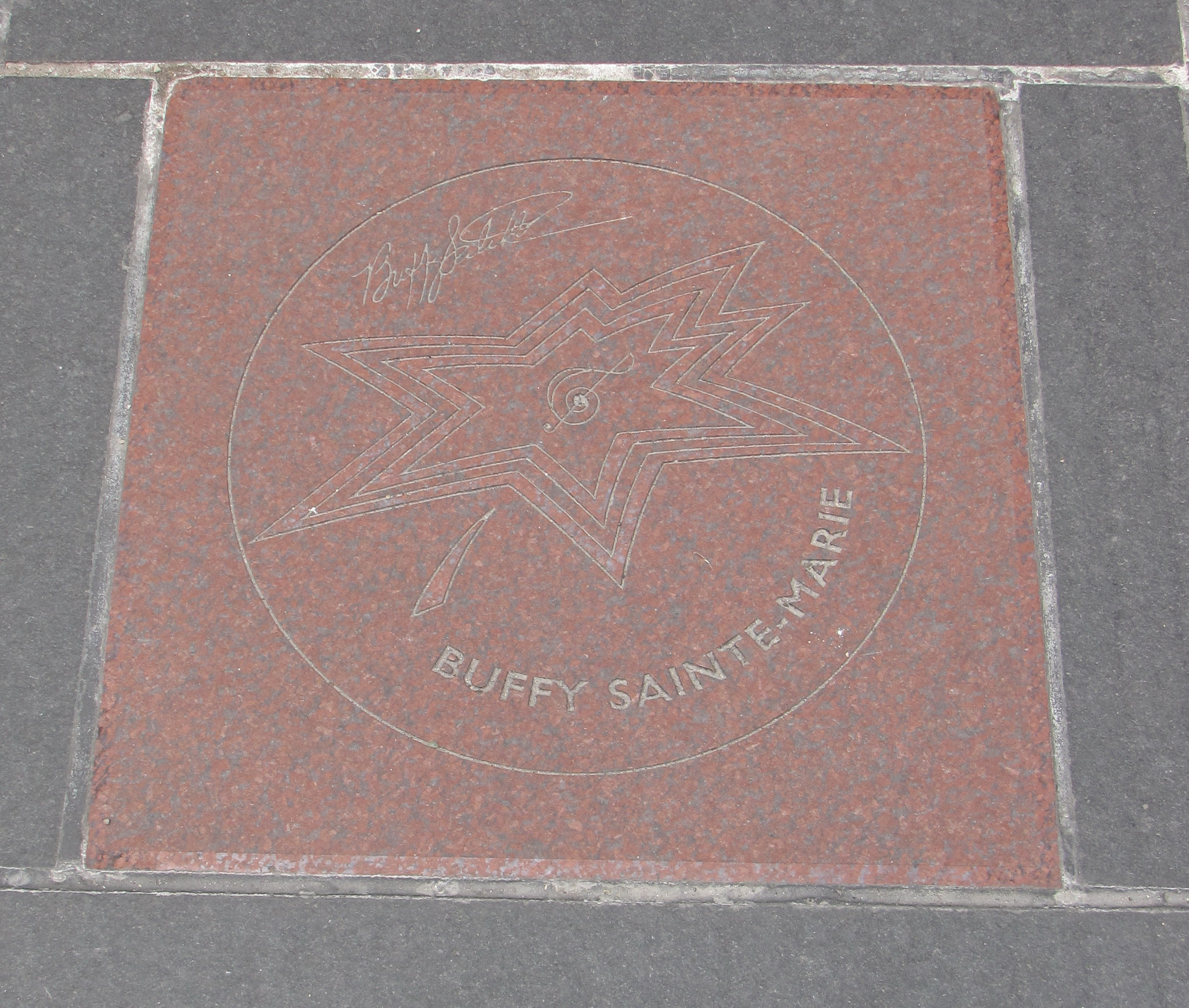 Buffy Sainte-Marie's star on Canada's Walk of Fame